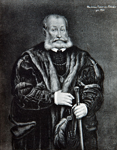 Wolfgang von Anhalt-Köthen (1492 - 1566)